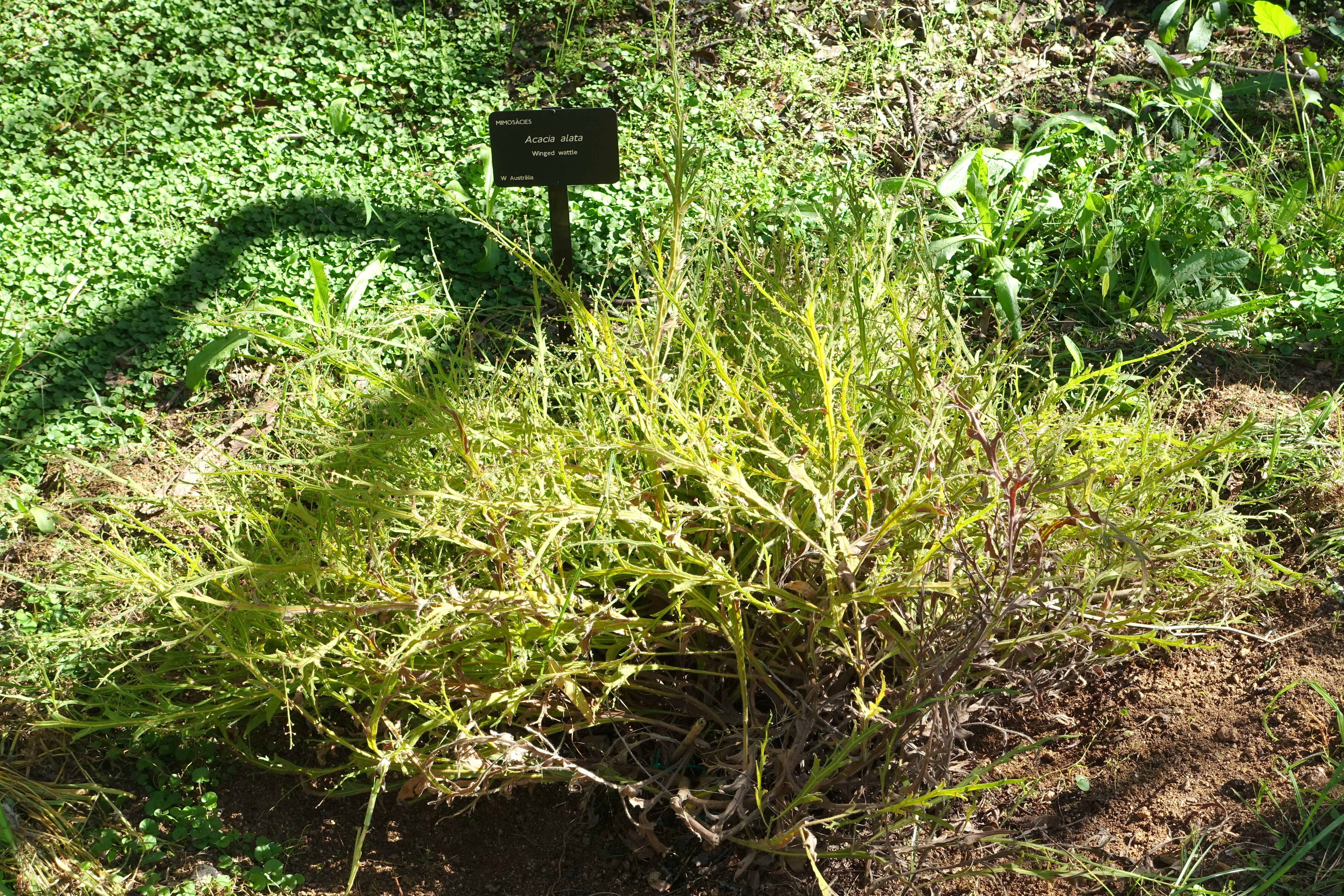 Botanical specimen in the Jardín Botánico de Barcelona - Barcelona, Spain.